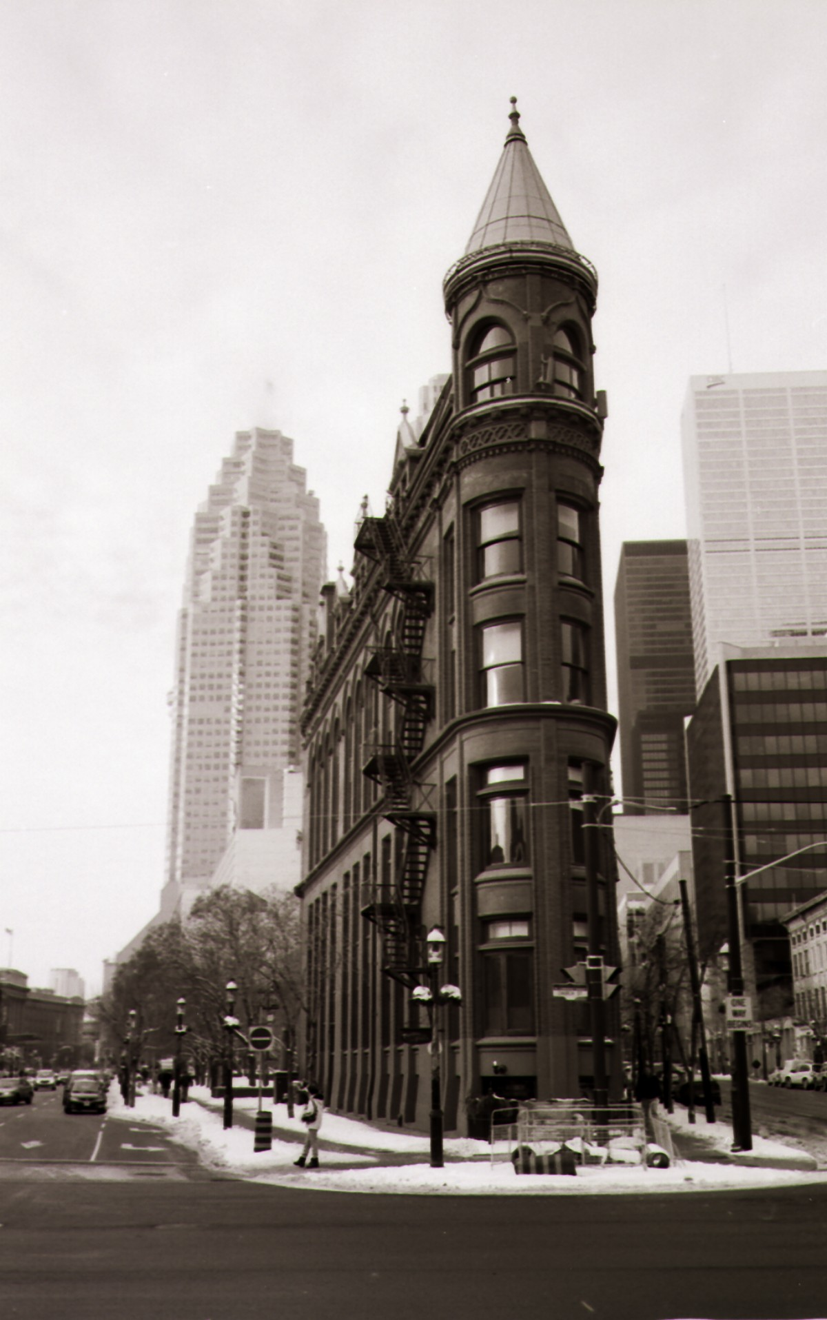 Gooderham and Worts Flatiron Building, Church and Front St's.Toronto, Canada